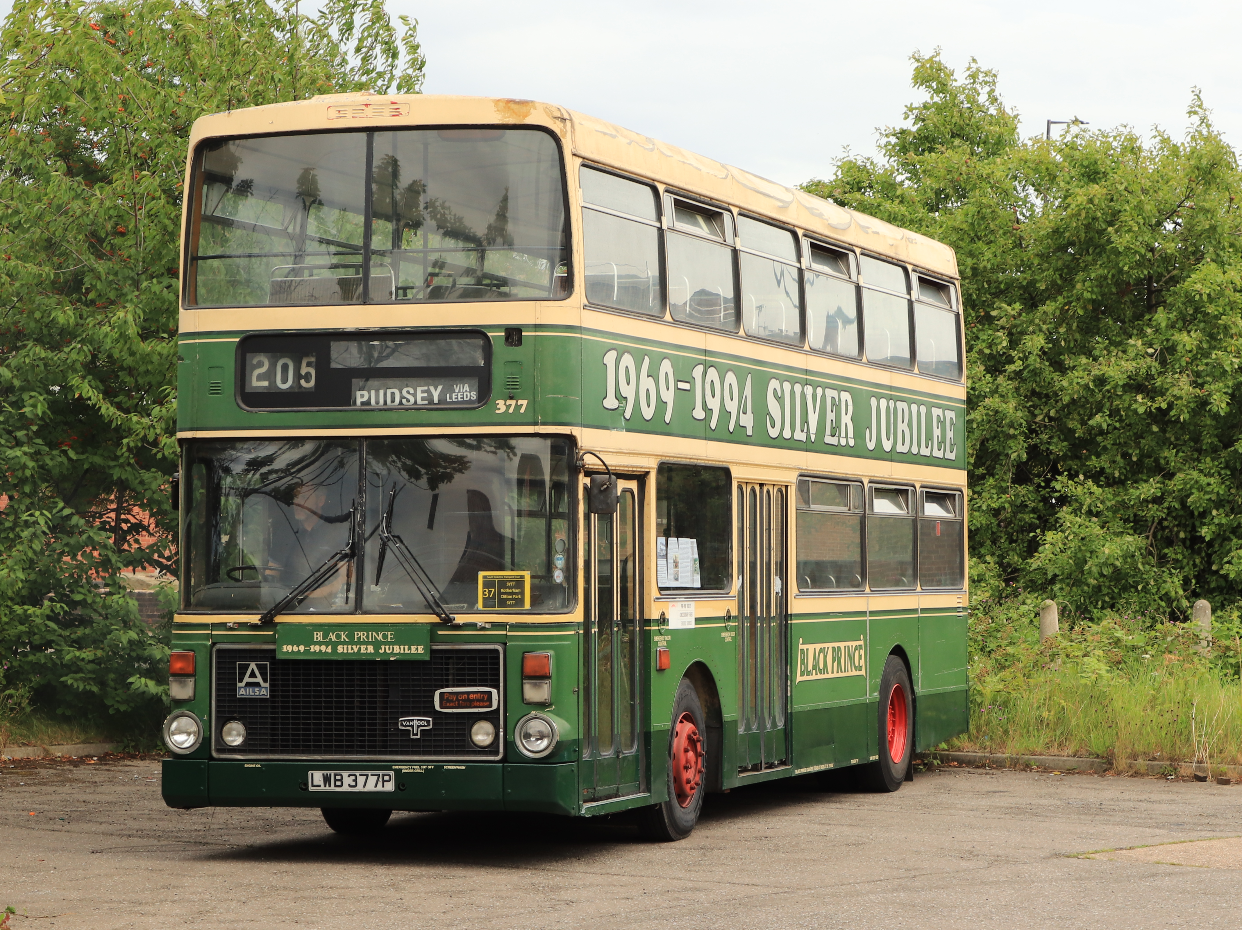 Volvo Ailsa B55 / Van Hool-McArdle H44/31D New to SYT as 377, then London Buses V14 21/07/2019